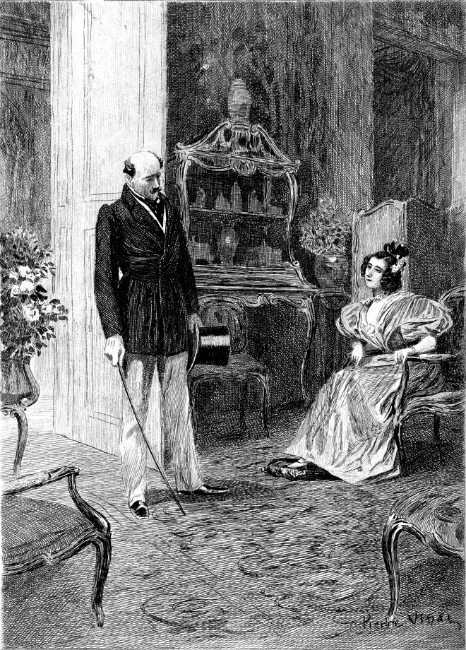 Title page of Honoré de Balzac's The Illustrious Gaudissart (1833-1843).